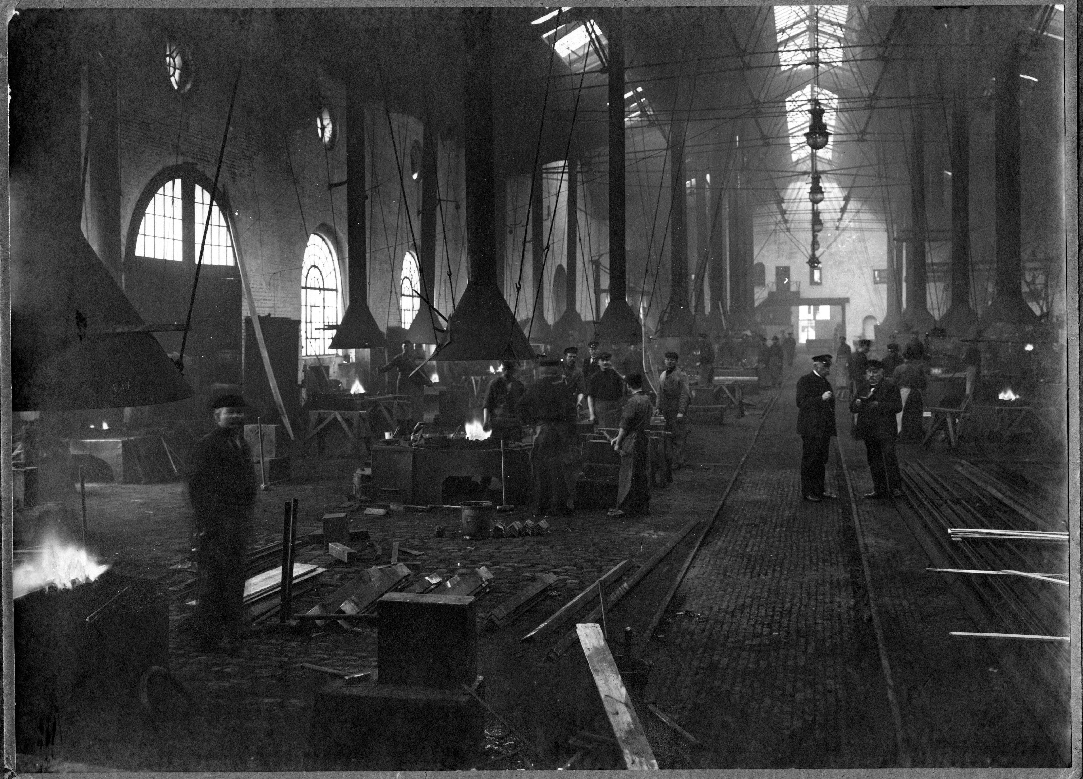 My grandmother's step-father, Gustav Anders, in his smithy